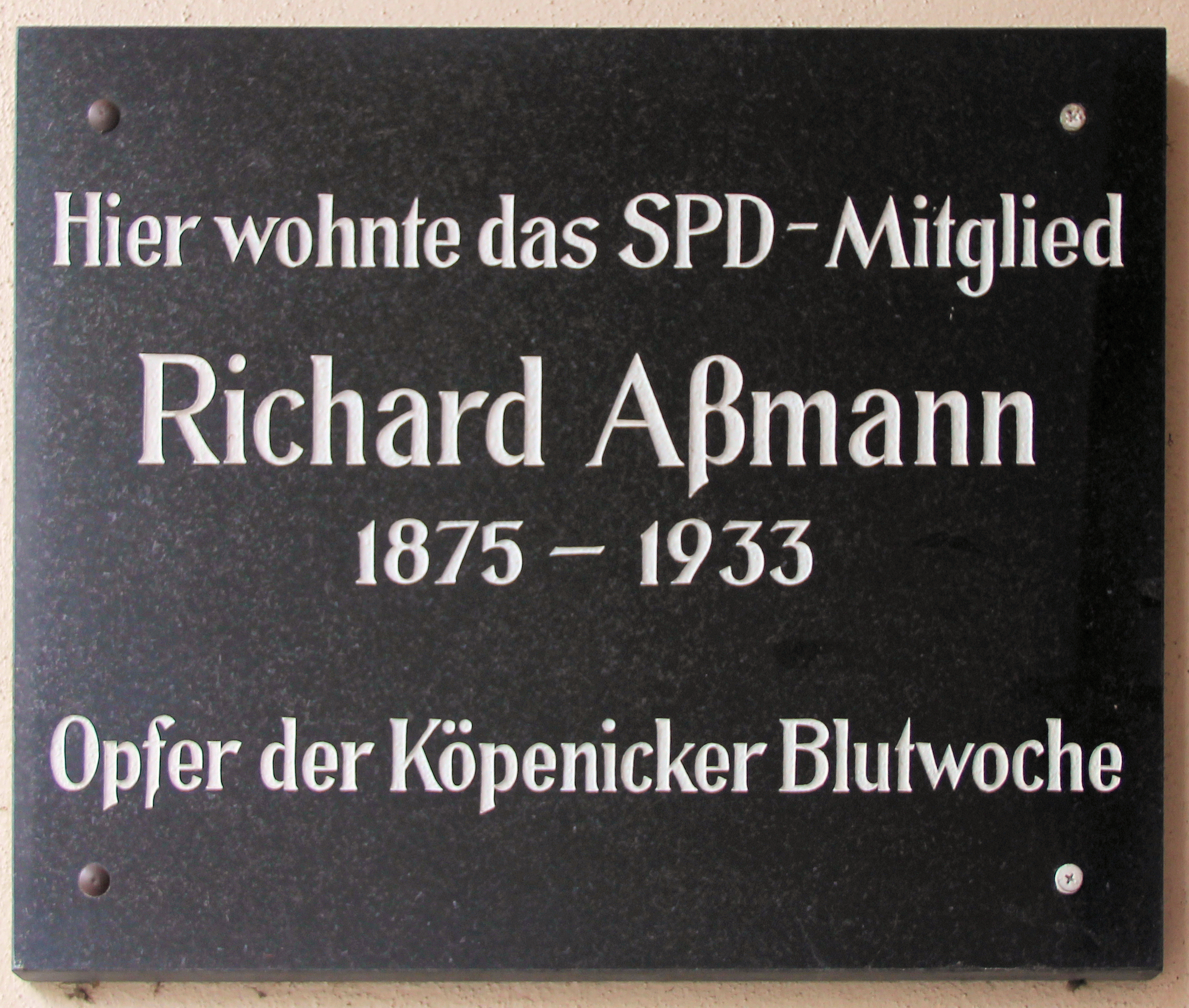 Memorial plaque, Richard Aßmann, Aßmannstraße 46, Berlin-Friedrichshagen, Germany Koordinate:52°27′2″N 13°37′27″E / 52.45056°N 13.62417°E